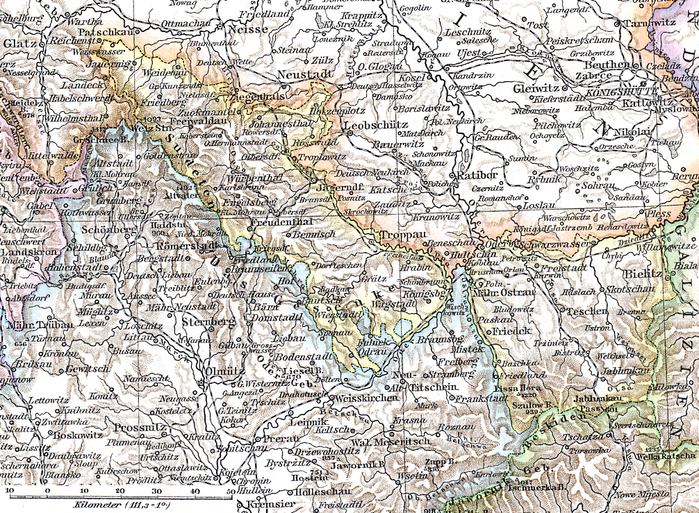 Austrian Silesia (original map scanned with 200px per inch). The scale has been placed in the cut by the uploader.